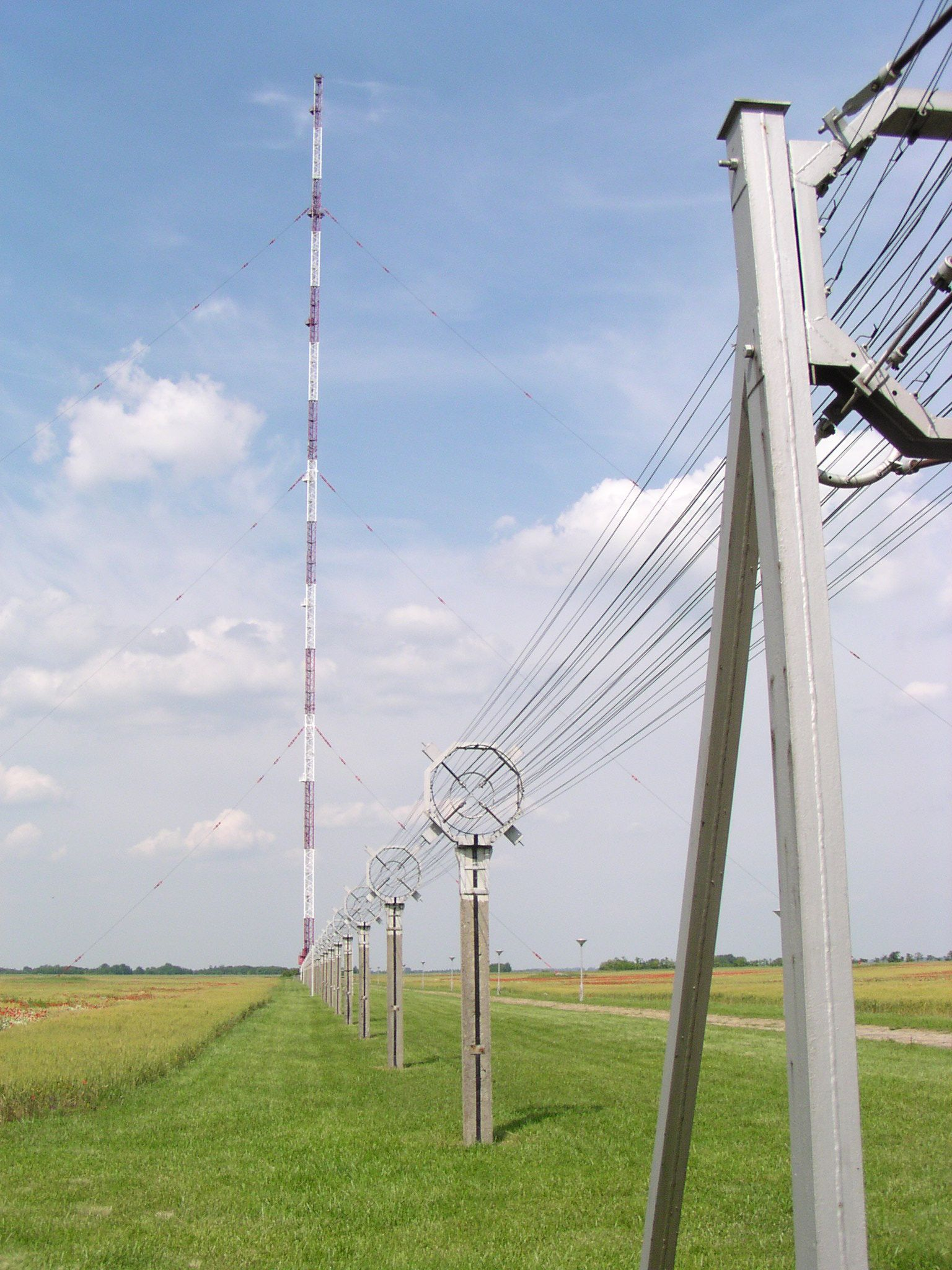 A "cage line" transmission line to feed radio power to the antenna mast (background) of the Solt transmitter (Hungarian: Solti rádióadó) for Kossuth Rádió near Solt, Hungary which broadcasts on 540 kHz in the medium wave (MW) band. With an output power of 2000 kW (2 MW) it is the most powerful medium wave radio transmitter in Europe and also the most powerful in the world (along with three Saudi transmitters). The line consists of an inner circular bundle of parallel wires carrying the power, surrounded by an outer circle of grounded wires that function as a "shield". The line functions similarly to a large coaxial cable. Cage lines are used to carry low frequency, high power RF currents.